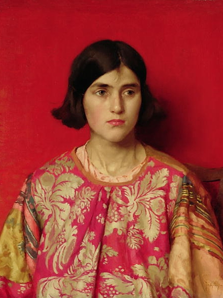 The Exile: Heavy Is The Price I Paid For Love